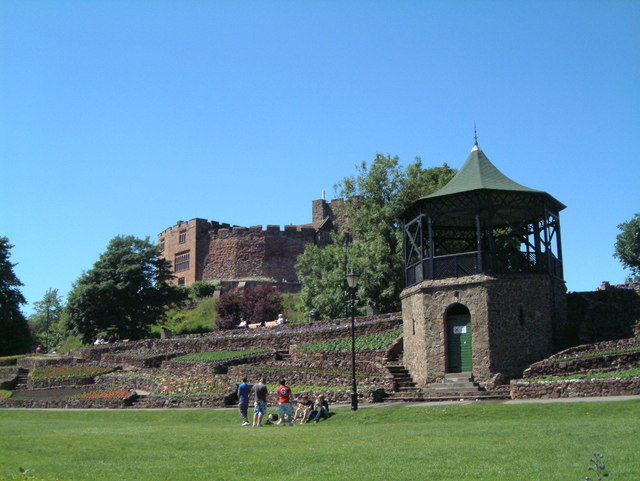 A view of the Castle Grounds (29) This photograph gives a good and clear view of the Bandstand, Tamworth Castle and the inclined Stonework flower beds.